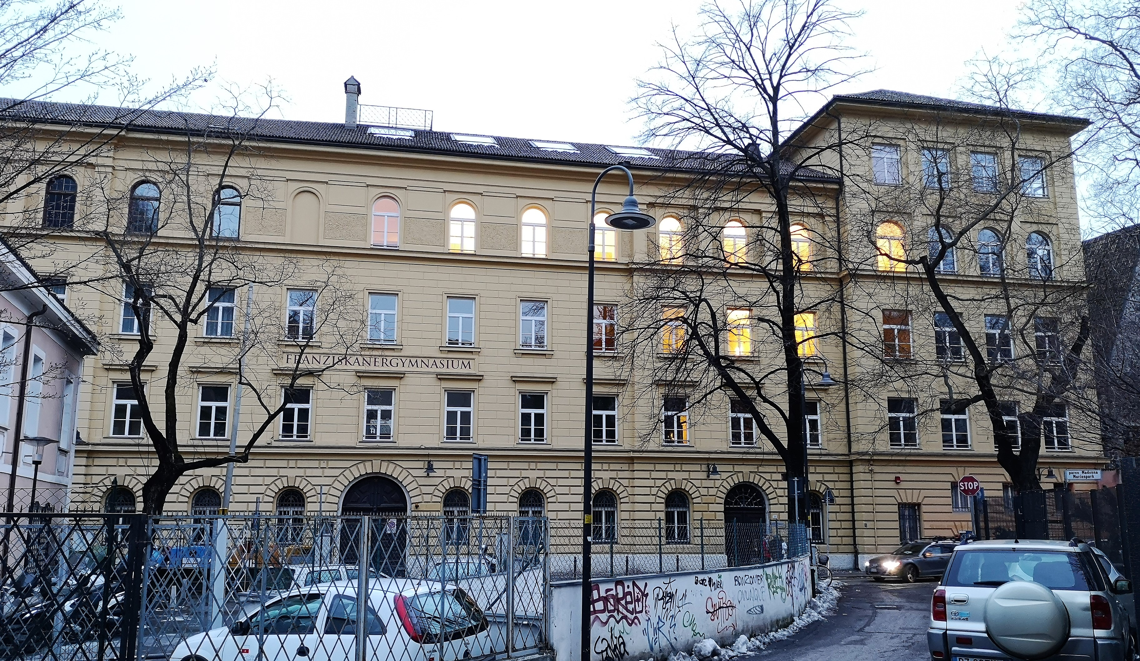 The Franciscans Highschool in Bozen-Bolzano, South Tyrol, 2019